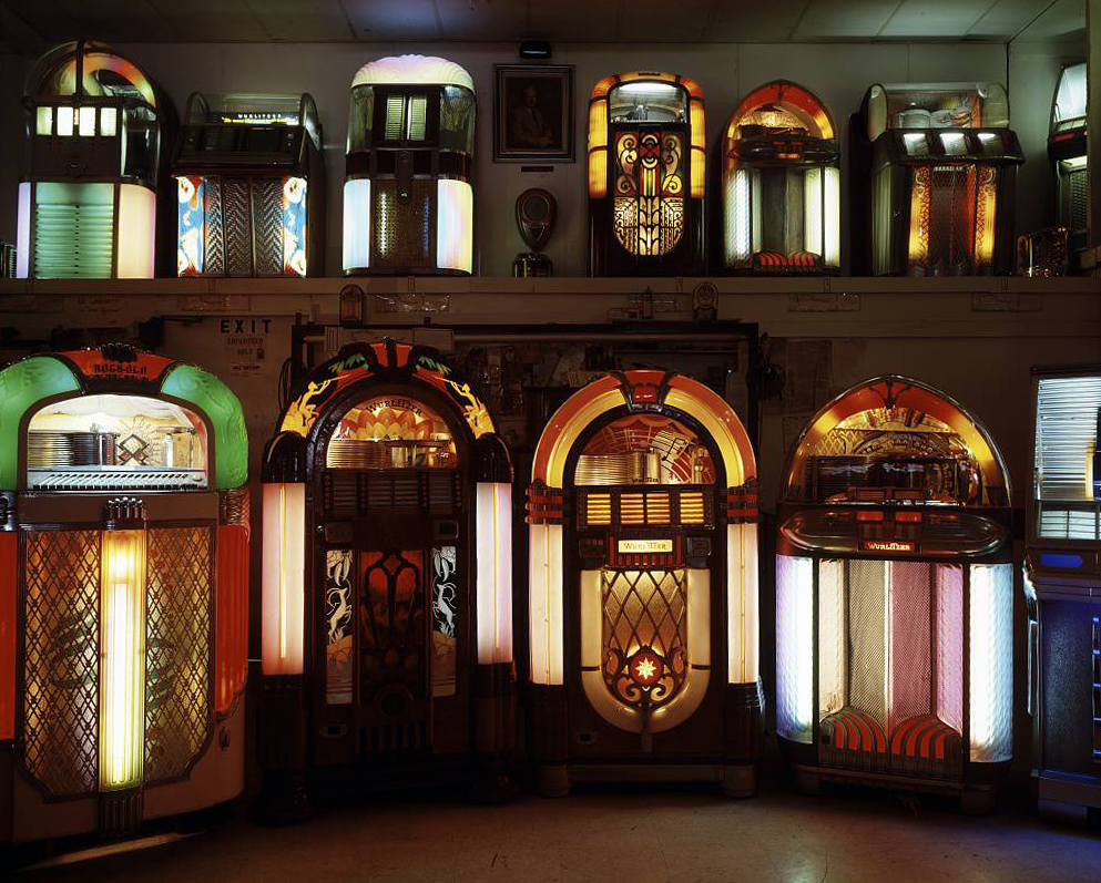 Juke Box museum in Texas.